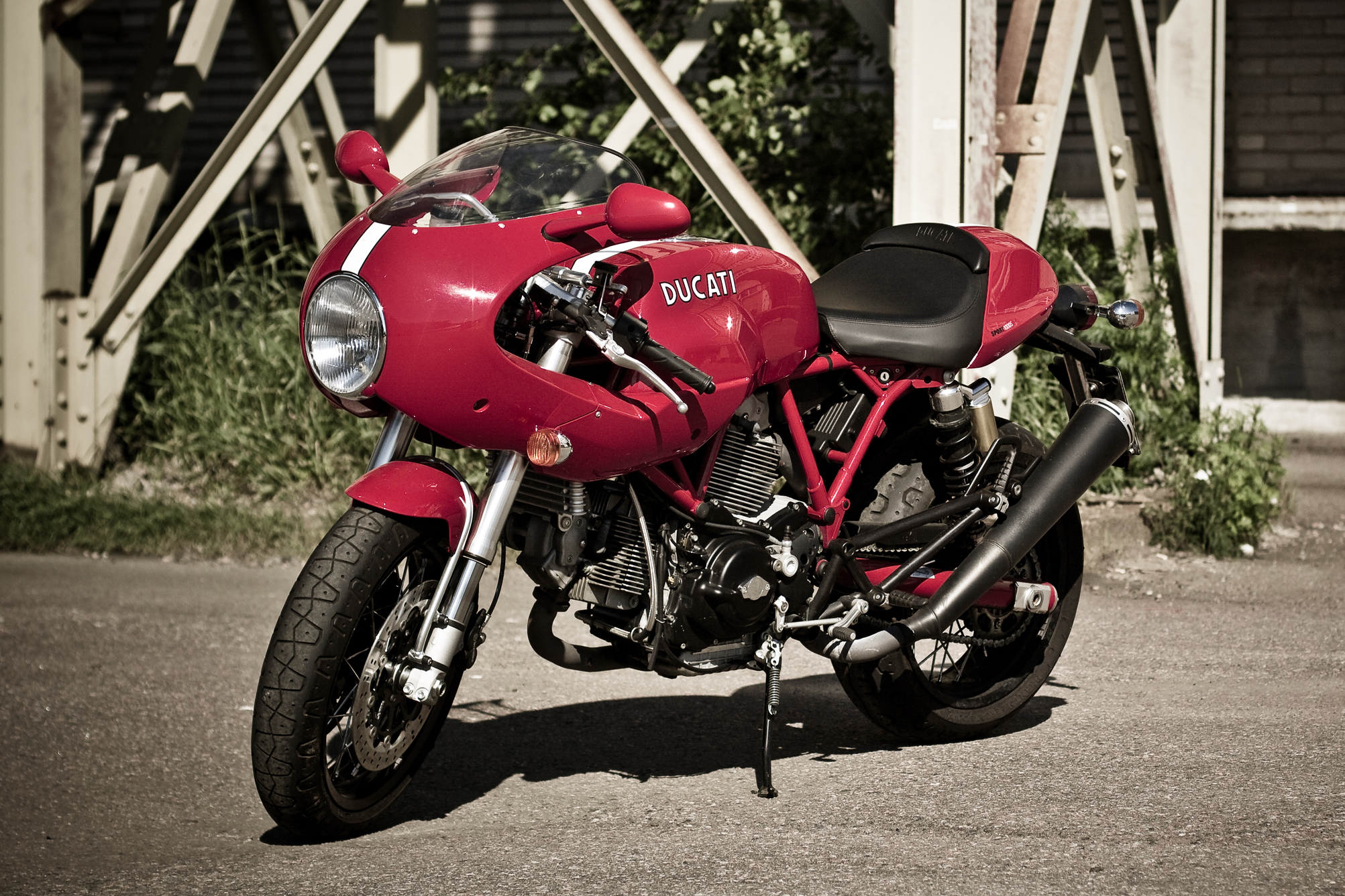 Three quarter frontal view of Ducati SportClassic 1000S motorcycle. Original photo modified by desaturating colours for 1960's-1970's retro/Lomo'ish look and adding vignette for the period look.